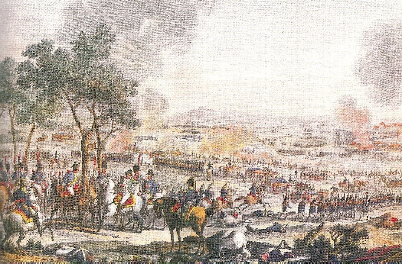 The ending of the Battle of Wagram, July 6, 1809